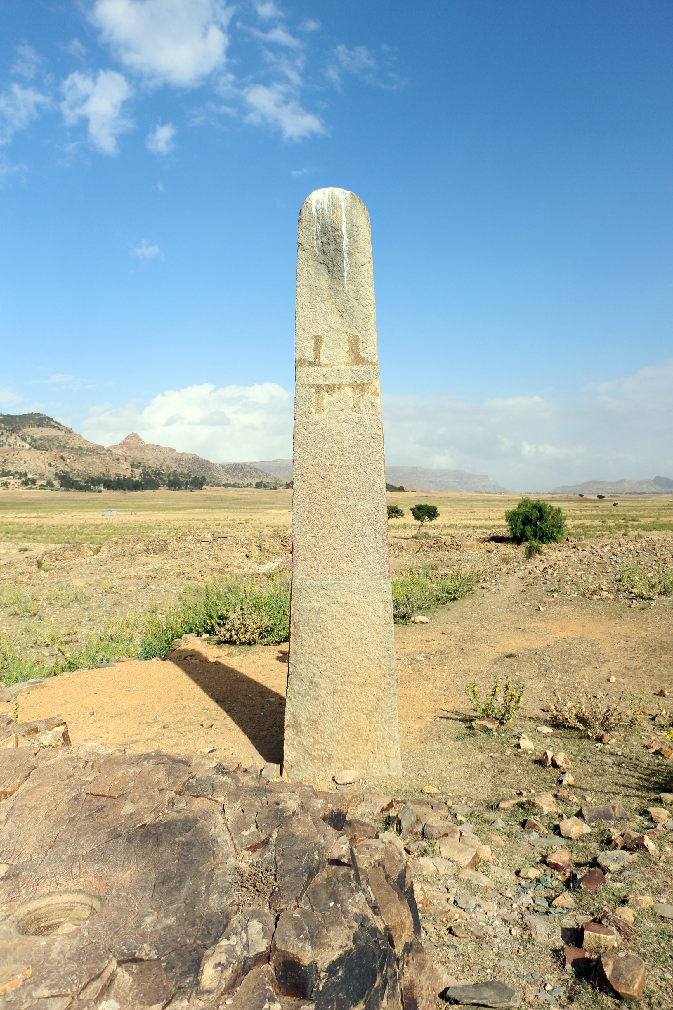 Balaw Kalaw - Menhir